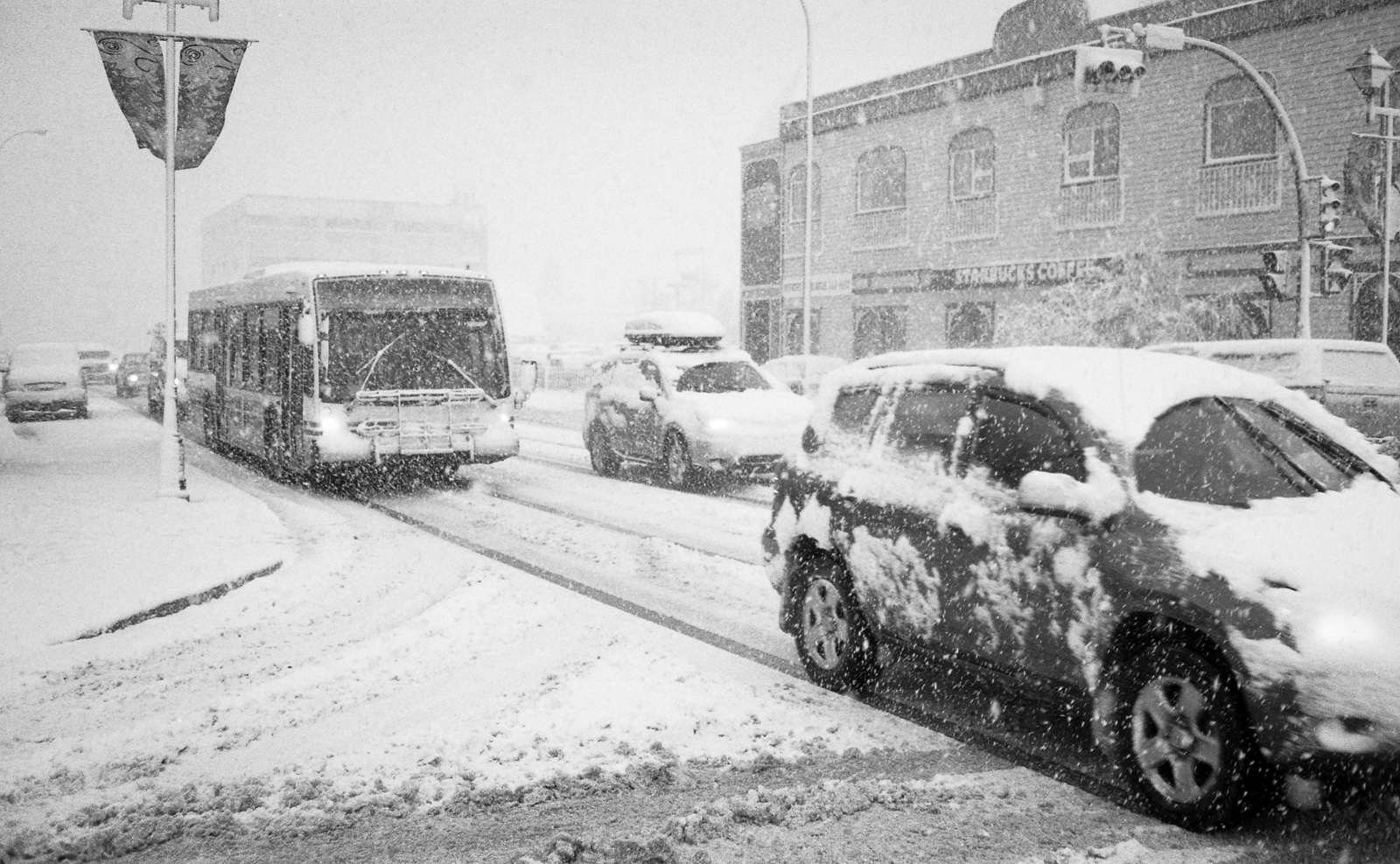 Heavy snowfall in Whitehorse, Yukon, Canada on September 30, 2014.